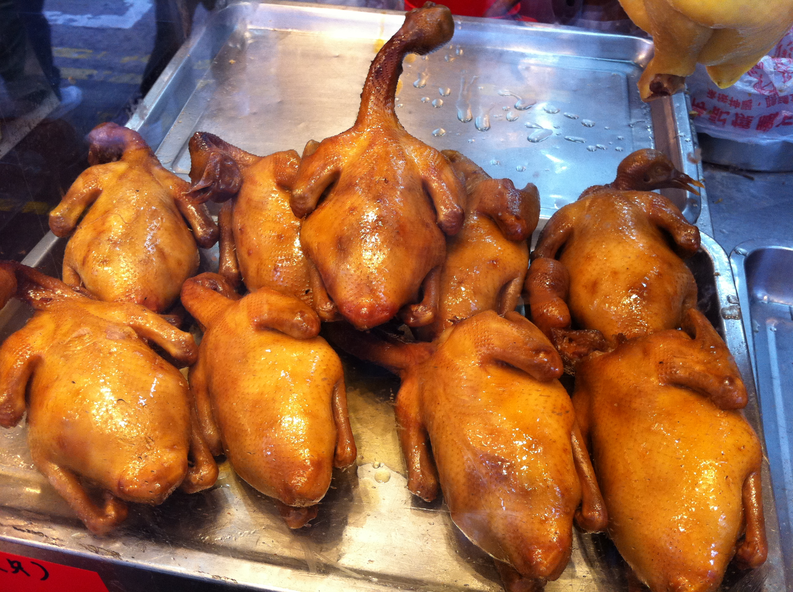 得記燒臘飯店, 東勝道, Tung Sing Road, Aberdeen, Hong Kong